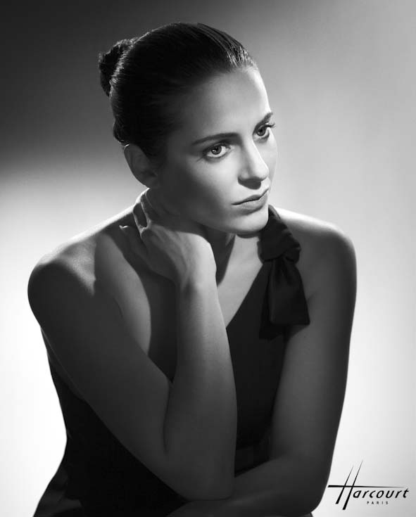 Audrey Dana photographed by Studio Harcourt Paris